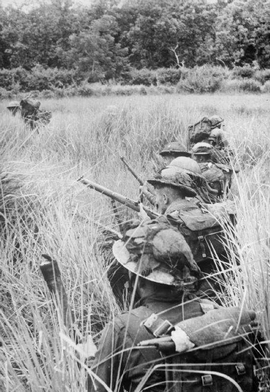 The British Army in Burma 1944 Men of the Royal Welsh Fusiliers, 29th Infantry Brigade, 36th Infantry Division, use paddy fields for cover as they approach Japanese positions around Pinbaw, 1944.